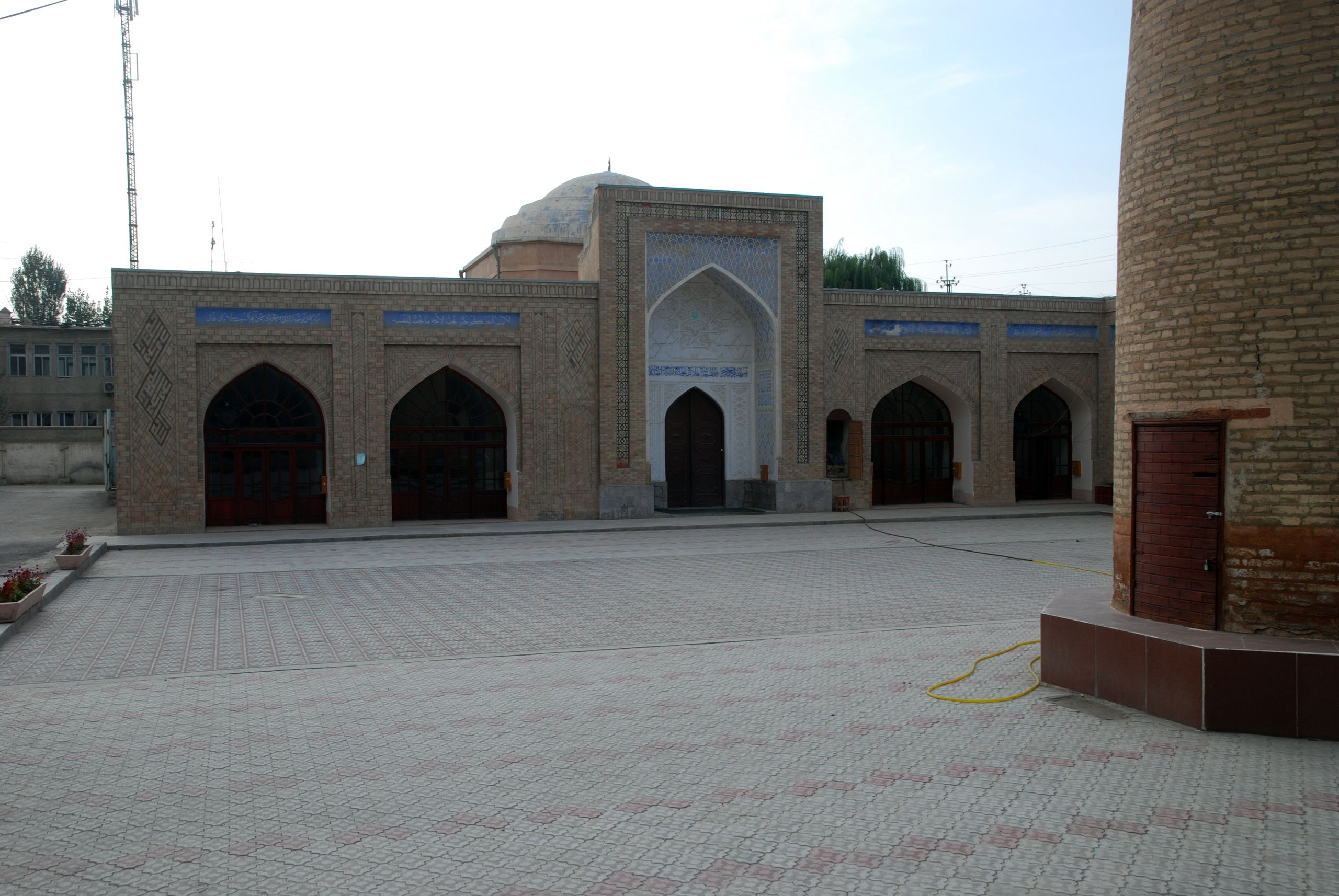 Isfara, Abdullo Khan mosque